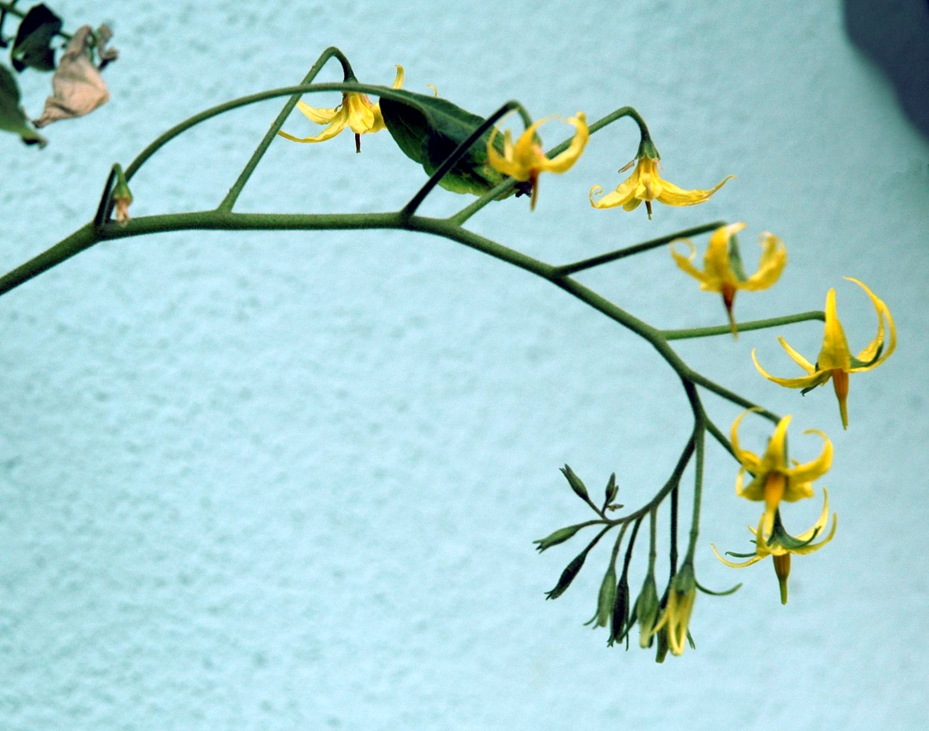 Inflorescence of wild tomato species Solanum pimpinellifolium